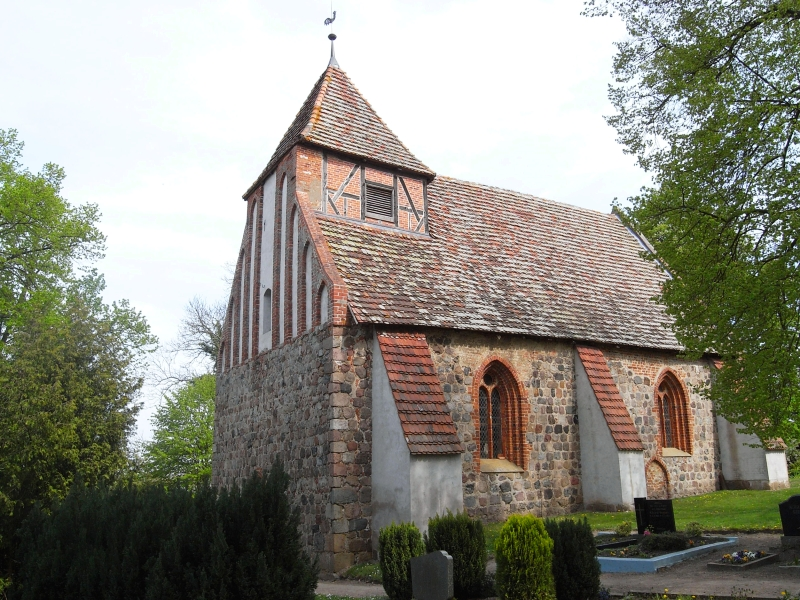 Church in Badendiek, district Güstrow, Mecklenburg-Vorpommern, Germany